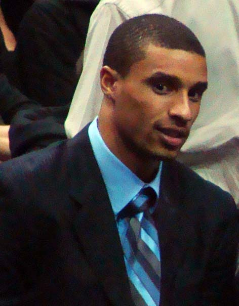 George Hill of the San Antonio Spurs, sitting out due to injury, during the Spurs-Nuggets match on 12-22-2010 in San Antonio, TX.